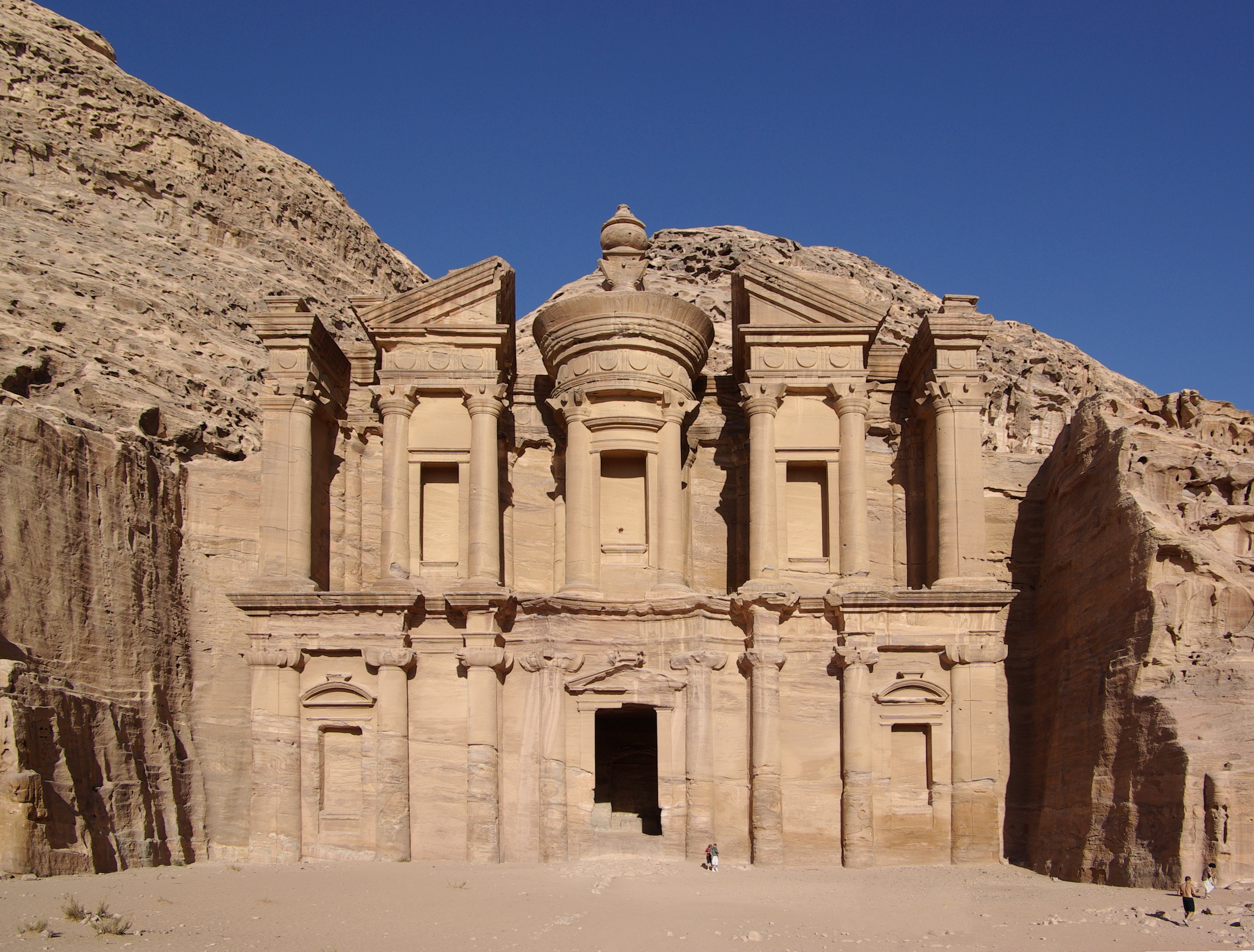 Petra, El Deir